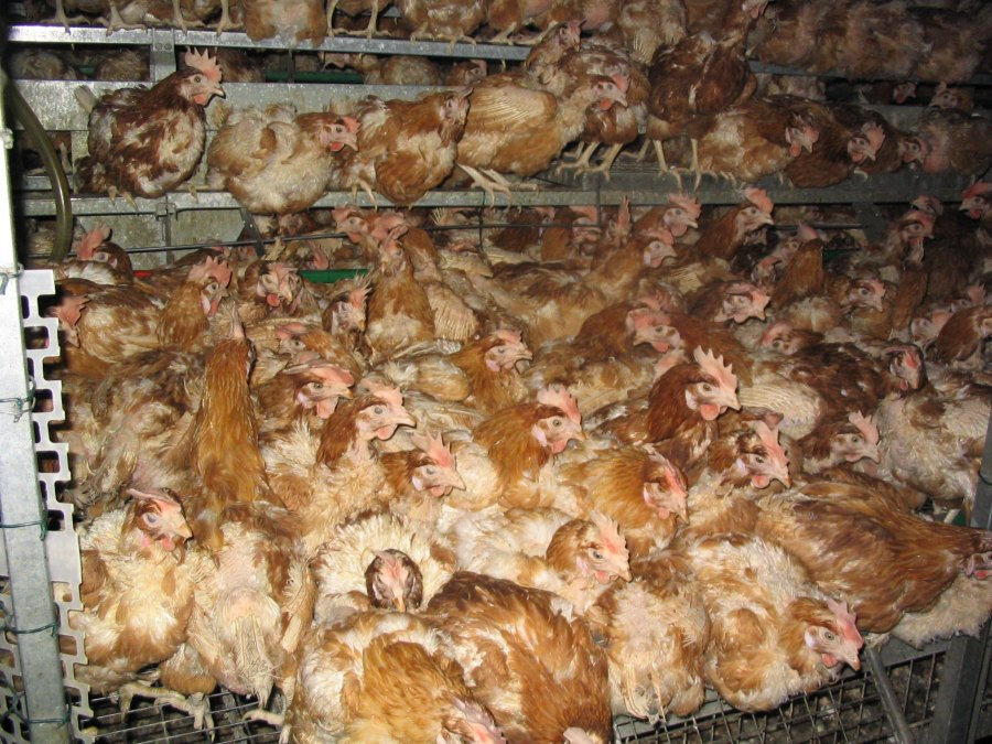 chickens in deep-litter system